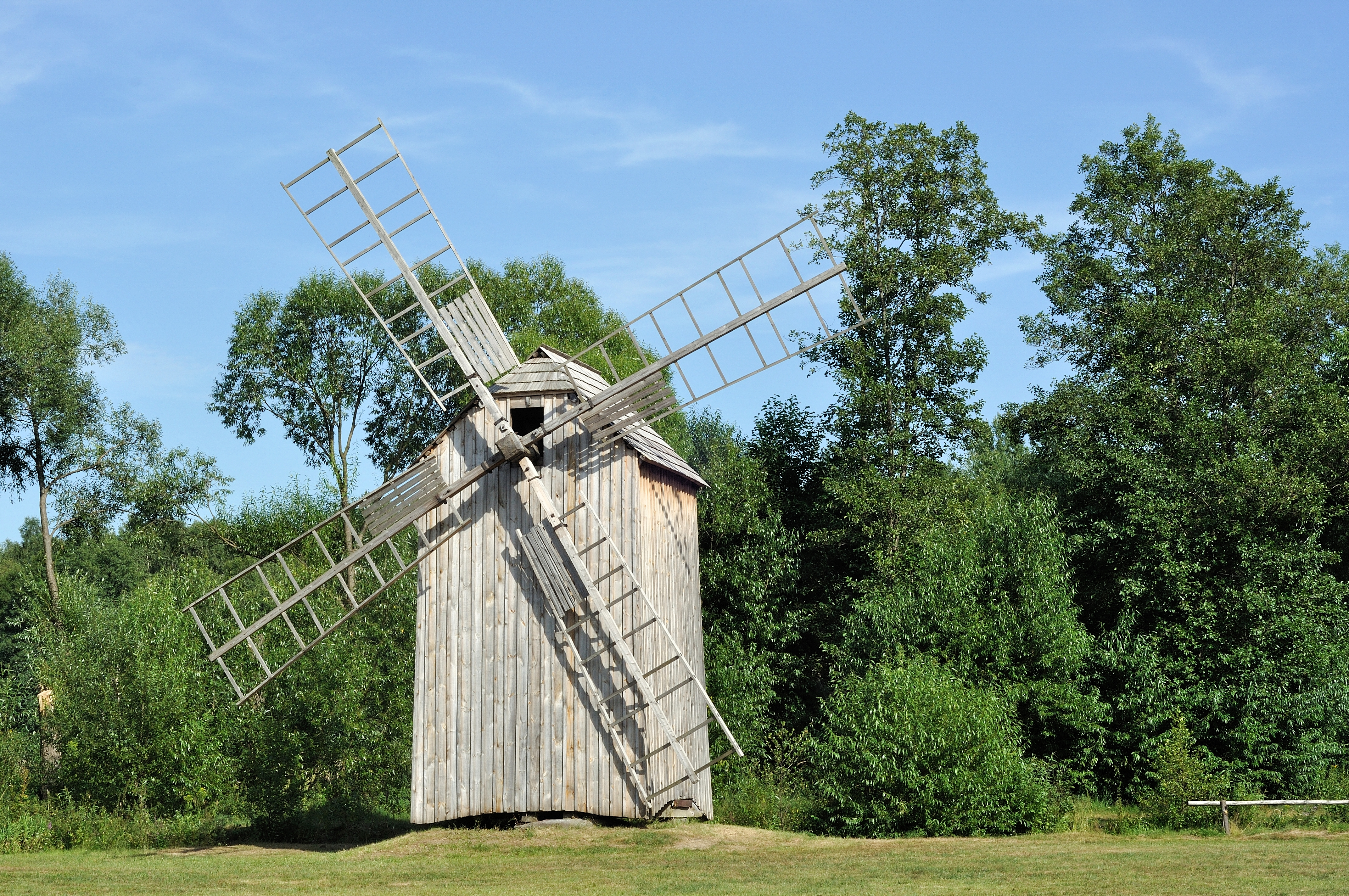 Wooden windmill from Trzęsówka in Museum of Folk Culture in Kolbuszowa